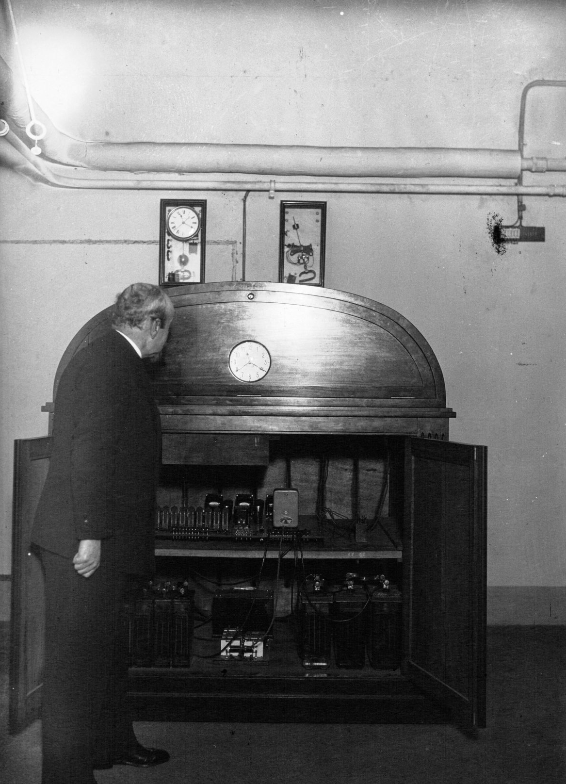 Speaking clock of Paris Observatory with its director Mr Ernest Esclangon